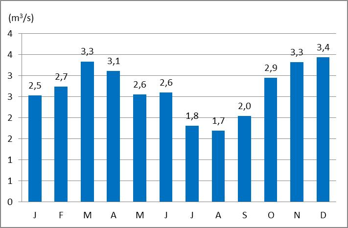 Average monthly discharges of Mirna River at the gauging station Martinja vas in 1971–2000